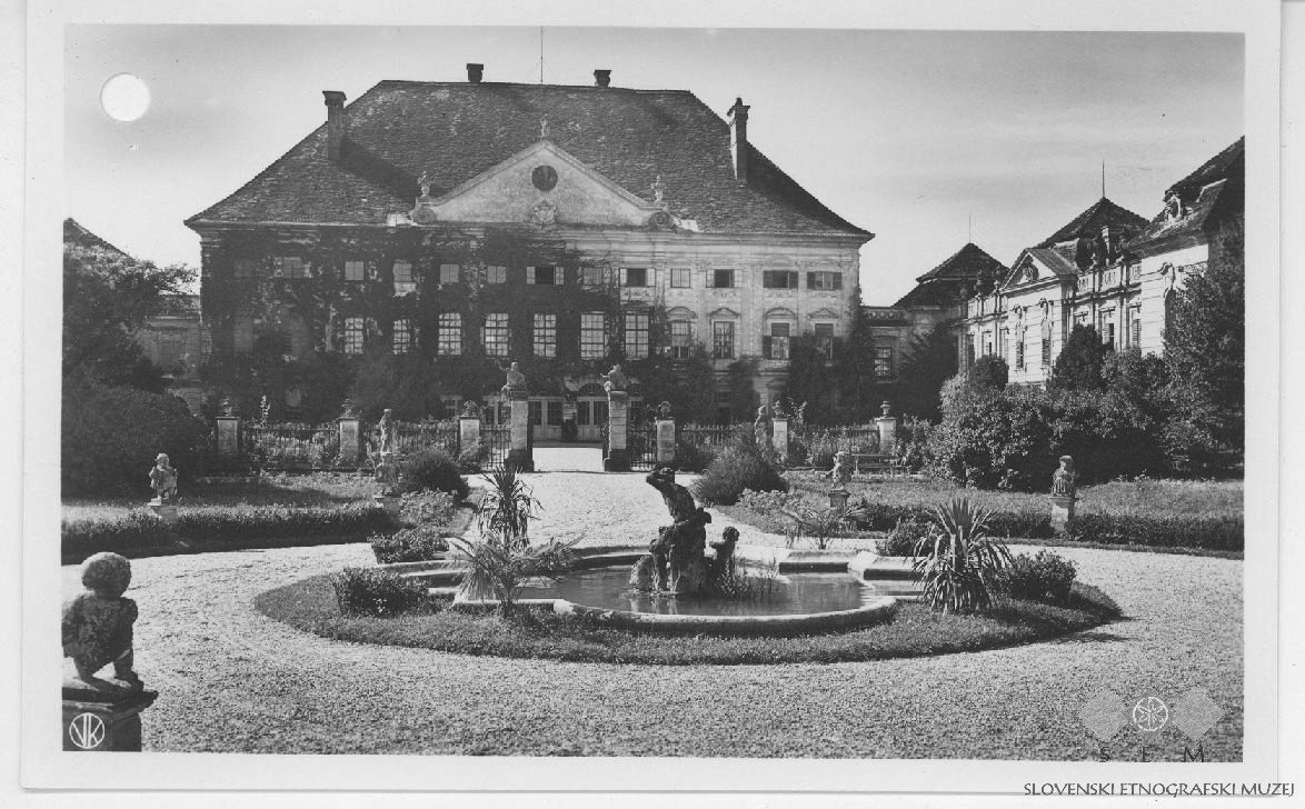 Postcard of Dornava Mansion